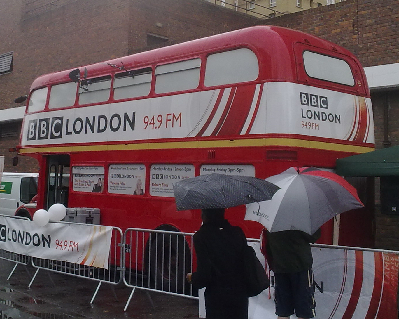 London Bus Company Routemaster coach RMA48 (reg. NMY 631E), pictured in Shadwell in its role as a mobile radio studio for BBC London 94.9. See the wider image for location & event details.